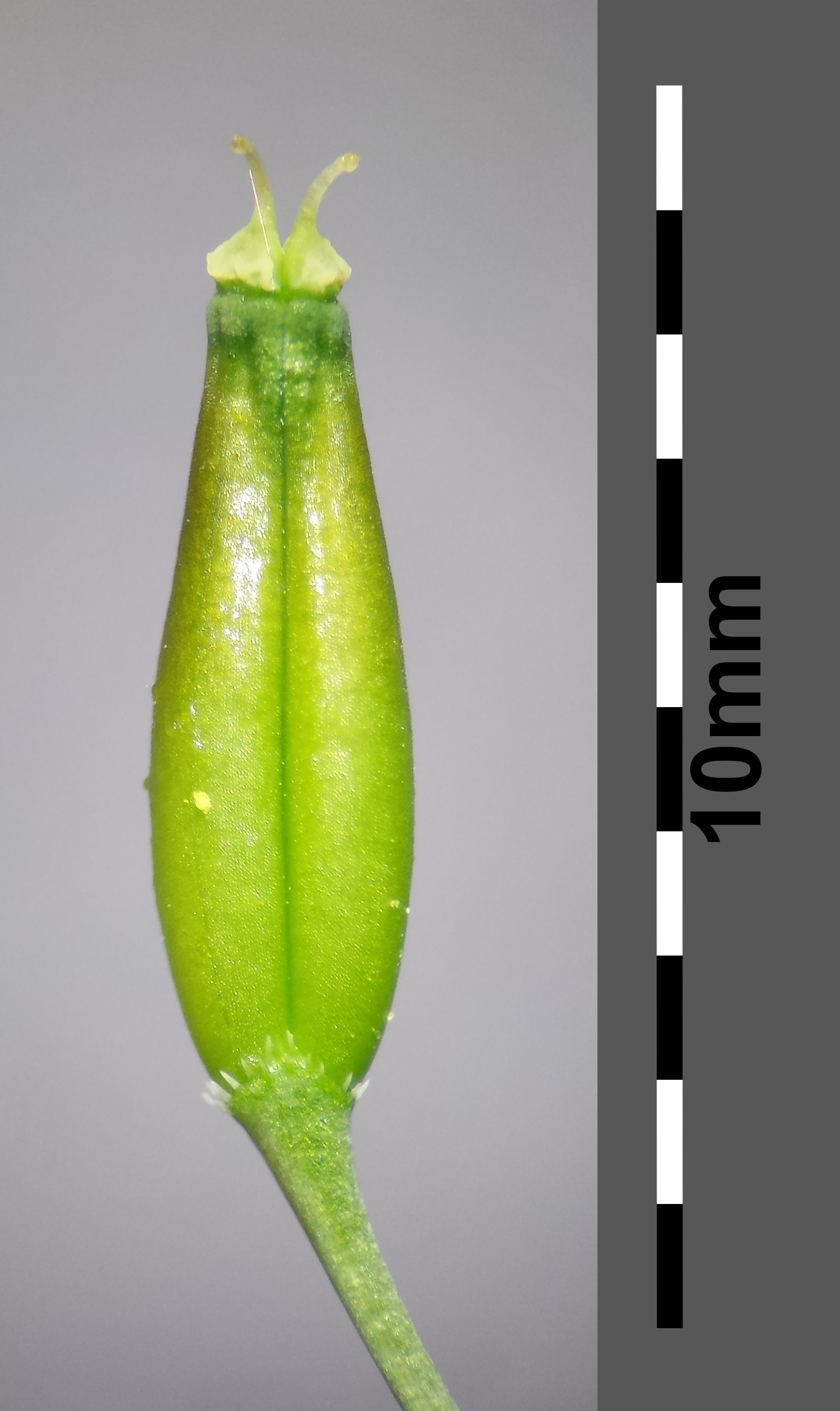 Fruit Taxonym: Anthriscus sylvestris ss Fischer et al. EfÖLS 2008 ISBN 978-3-85474-187-9 Location: near Steinberg near Niederhollabrunn, district Korneuburg, Lower Austria - ca. 300 m a.s.l. Habitat: wayside